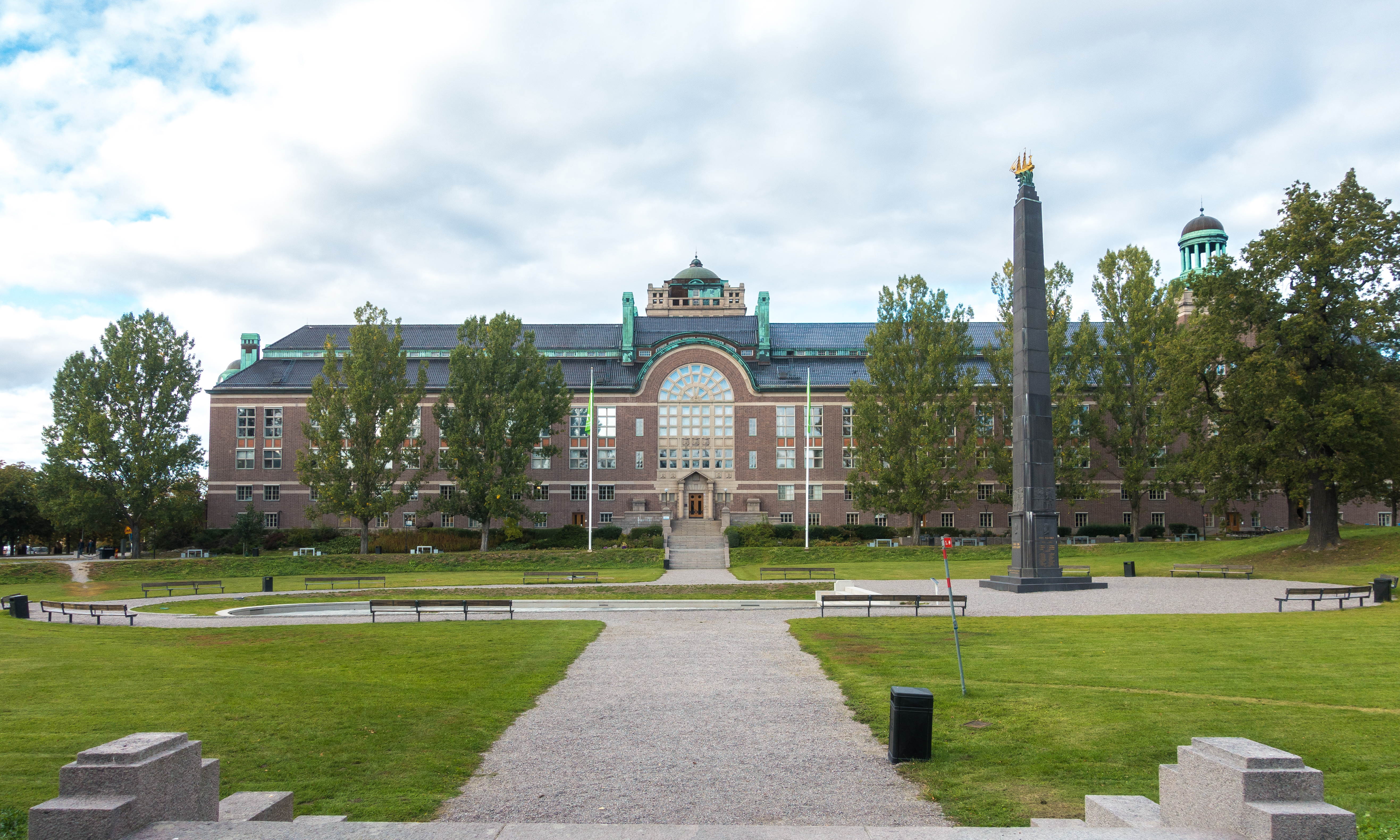 South side of exterior of the Swedish Museum of Natural History in Stockholm, Sweden.